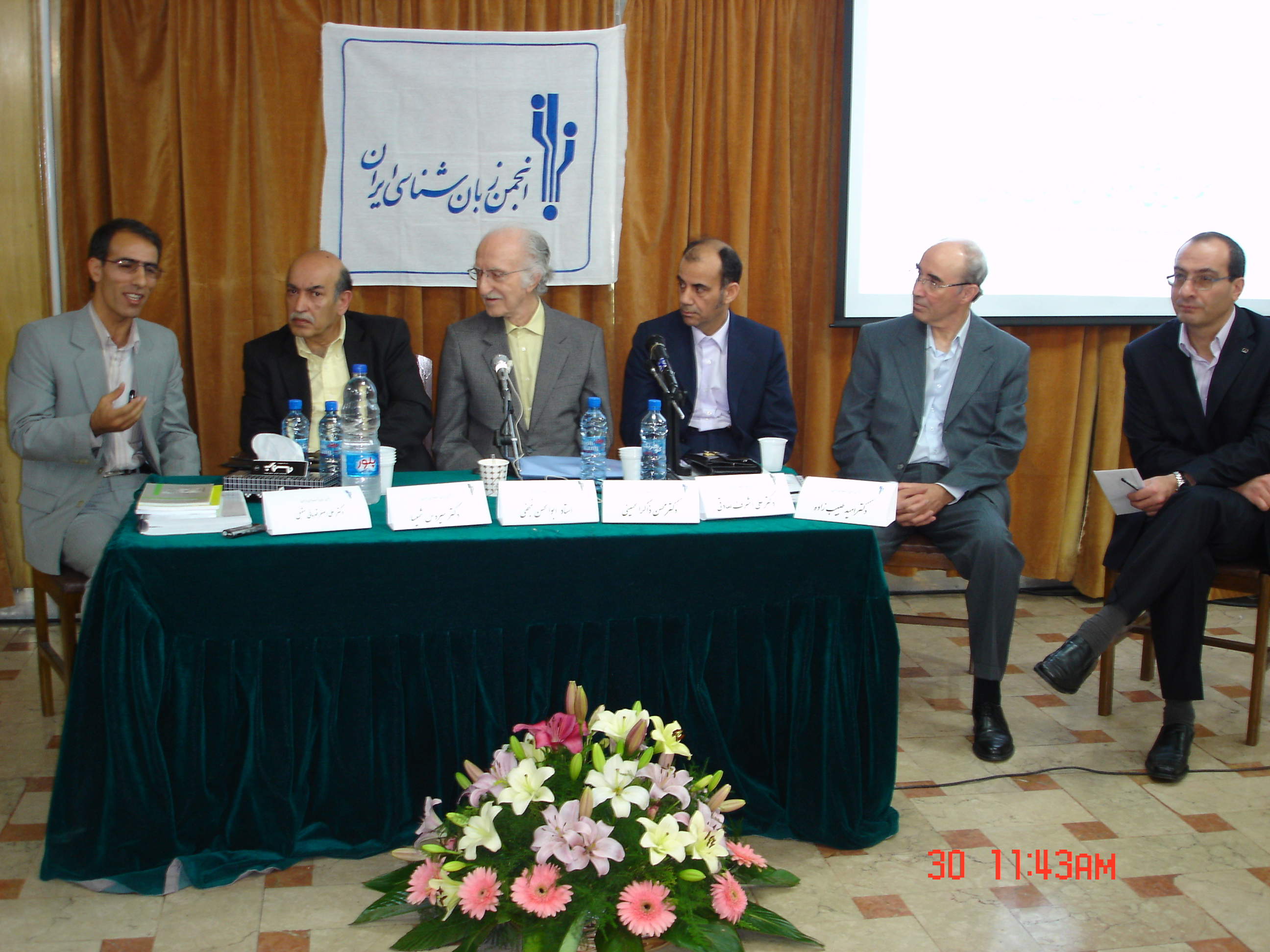 Aruz Conference, Linguistics Society of Iran, 30 April 2010